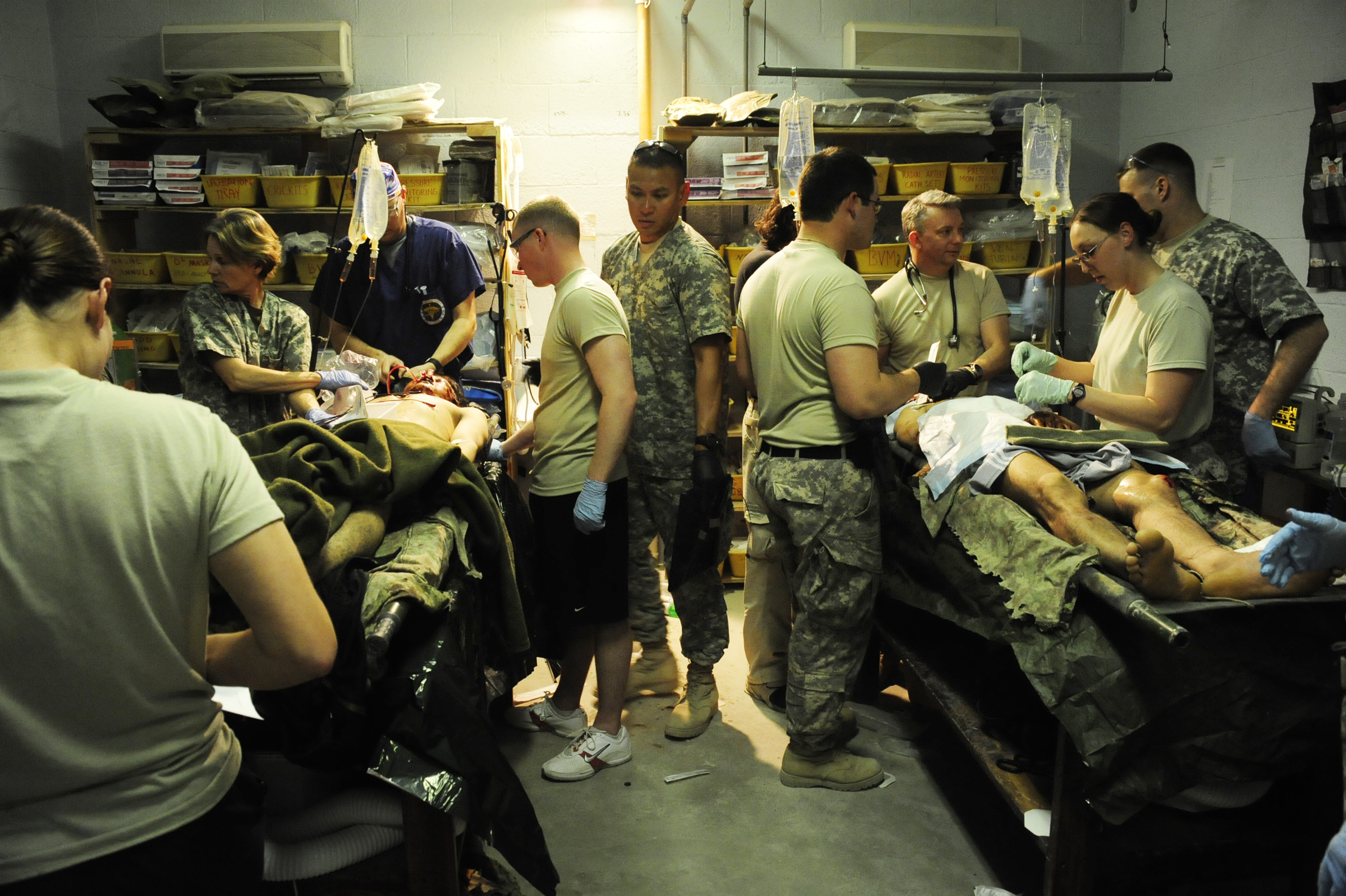 Afghan national army soldiers receive medical treatment from the Farah Forward Surgical Team and Provincial Reconstruction Team Farah medics at Forward Operating Base Farah, April 23. Four ANA soldiers were transported to FOB Farah after receiving injuries from an improvised explosive device explosion which occurred in Najabad, a village in the Pusht Rod District. Of the four soldiers, one succumbed to injuries while at FOB Farah, two were transferred to a local ANA brigade medical facility, and one was transported to Herat for further medical treatment. See more at